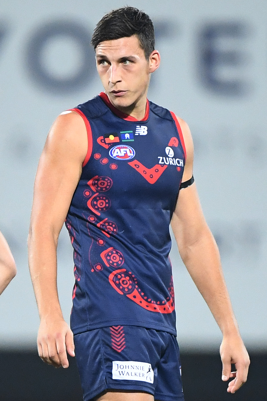 Sam Weideman of Melbourne during the 2019 AFL round 11 match between Melbourne and Adelaide at TIO Stadium on Saturday, 1 June 2019 in Darwin, Northern Territory.